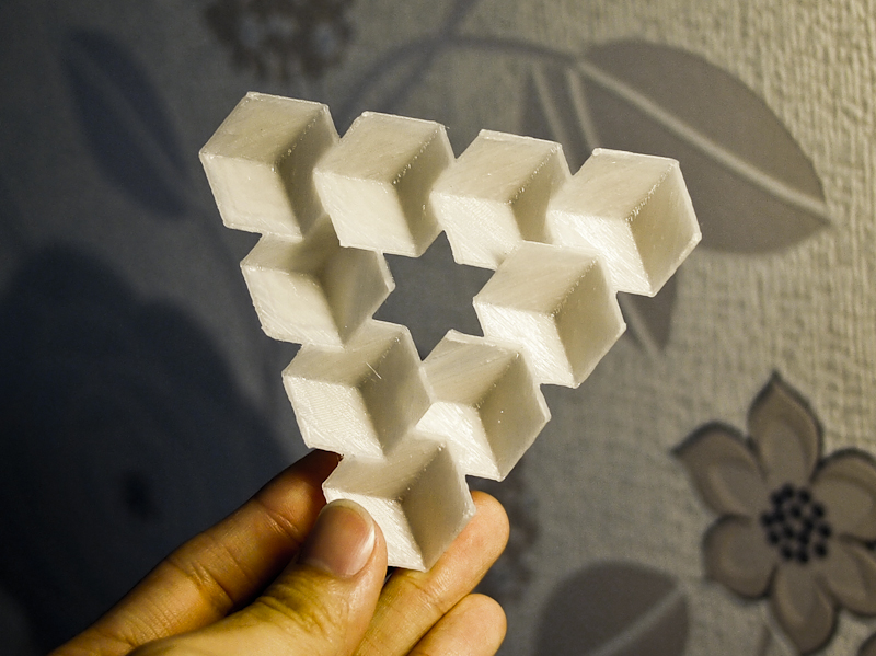 A 3D-printed version of the Penrose Triangle illusion, created with partial inverted cubes. The 3D model is available under the "Attribution/Non-Commercial/Share-Alike" license here